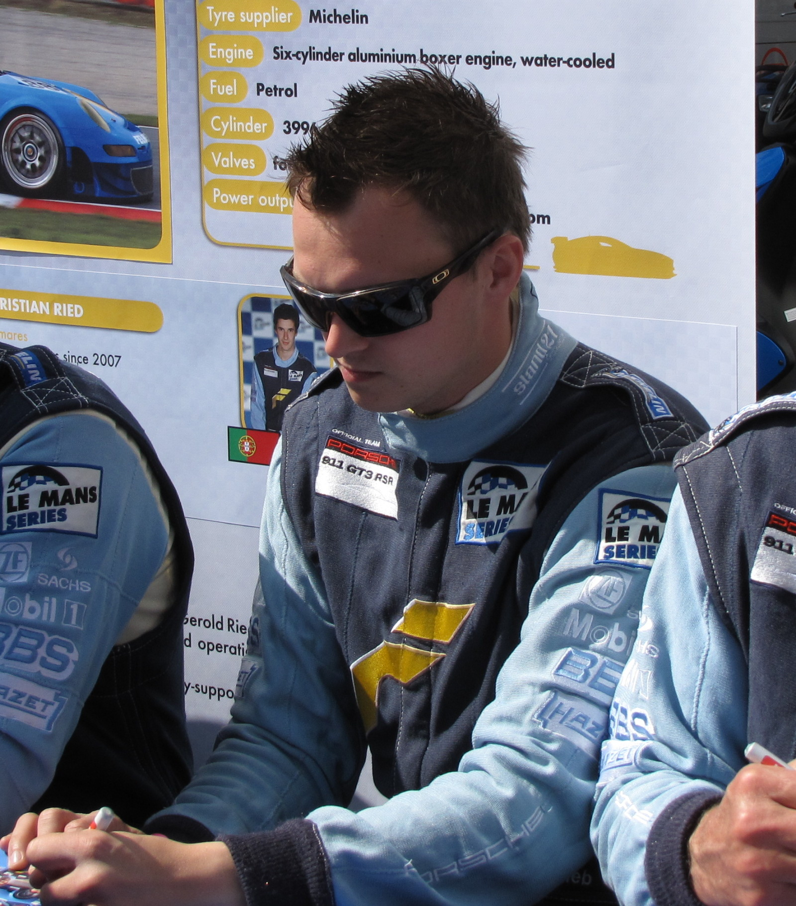 Marc Lieb signing autographs in Spa 2009.